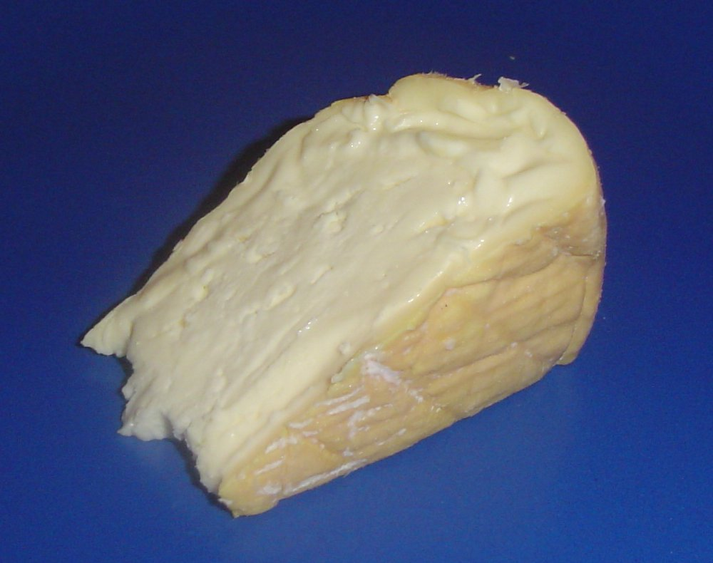 Munster cheese, France. Photography (c) 2005 Zubro (image by myself).